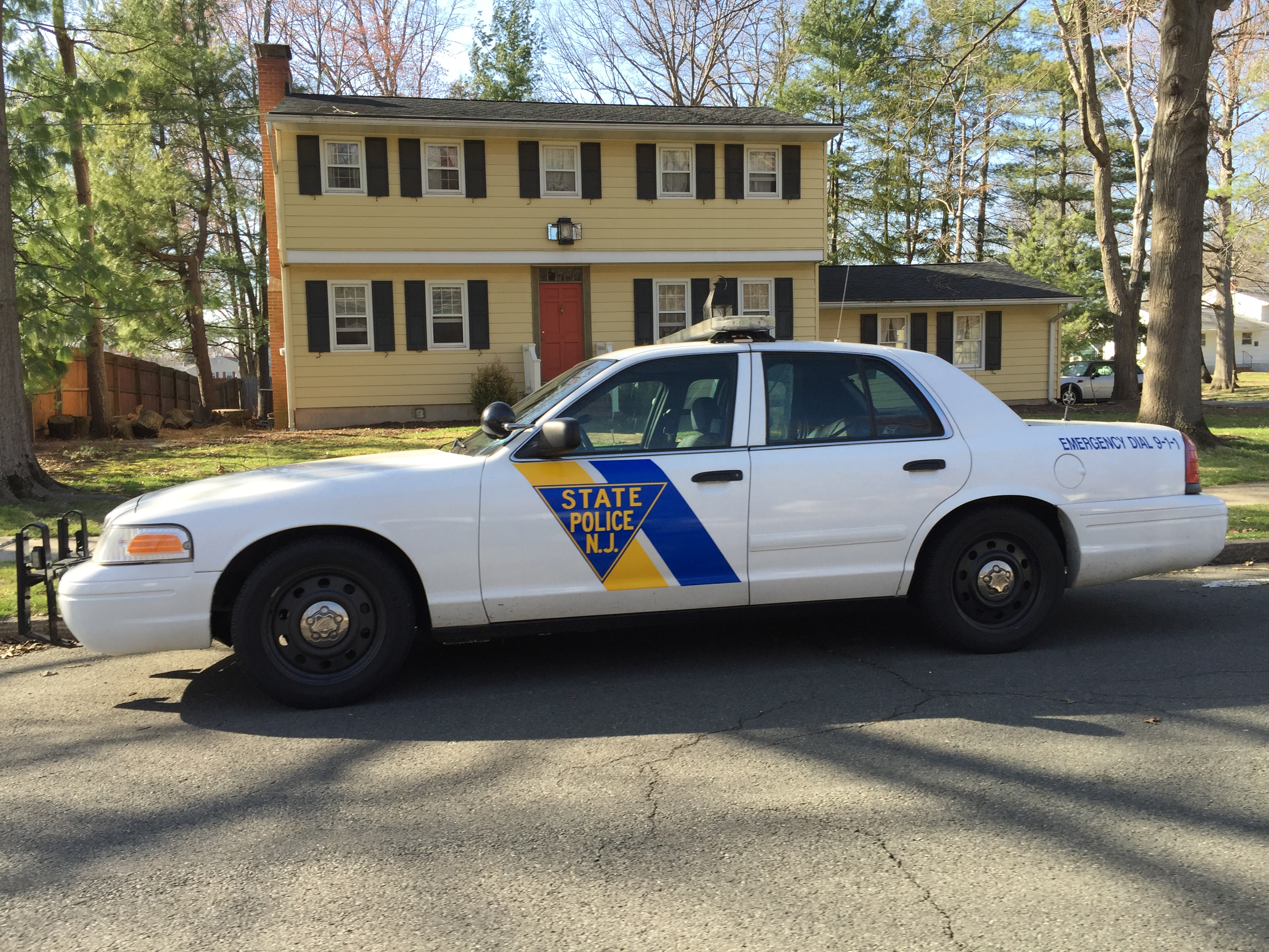 New Jersey State Trooper patrol car in Ewing, New Jersey